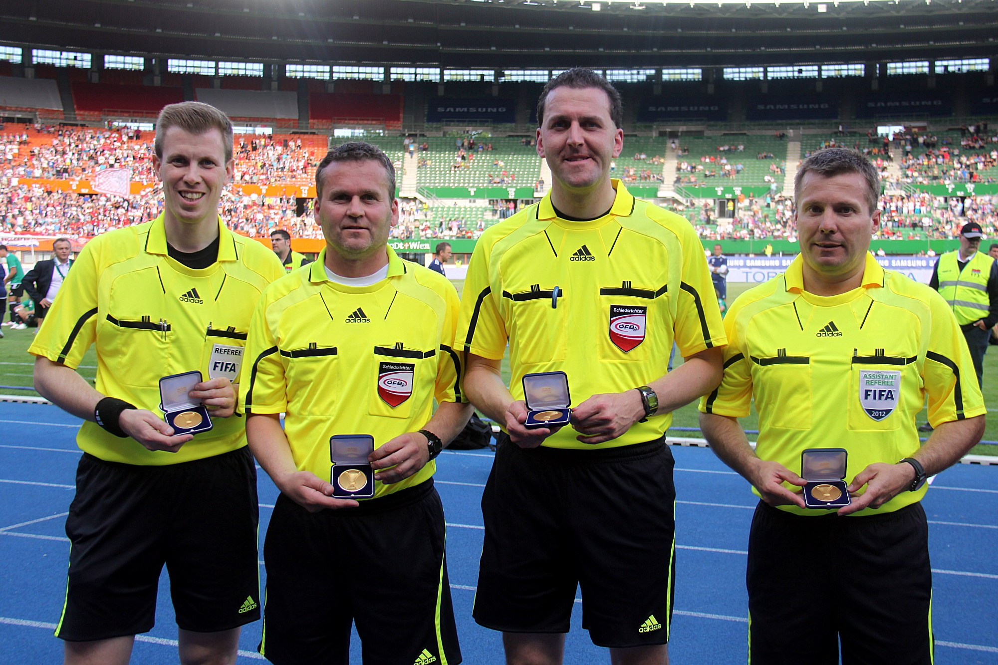 Final of the 2011–12 Austrian Cup FC Red Bull Salzburg vs. SV Ried at 2012-05-20 in the Ernst-Happel-Stadion, Vienna 3:0 (2:0). Object location48° 12′ 25.8″ N, 16° 25′ 15.42″ E